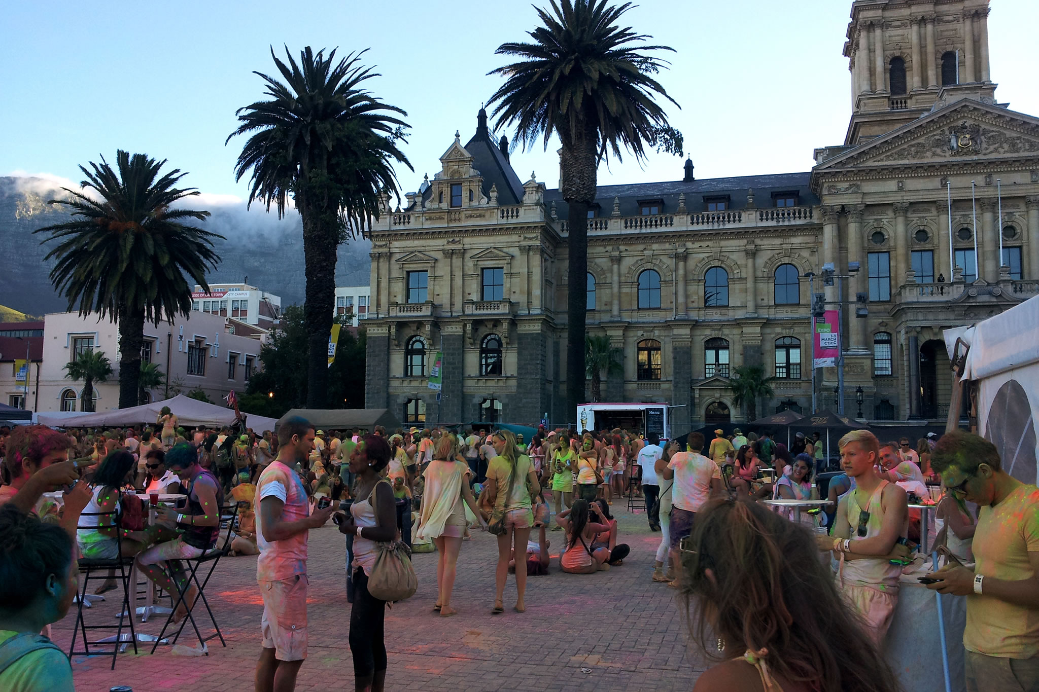 Saturday 2 March 2013, in Cape Town South Africa. The festival, which started as the spring festival celebrated by Hindus, now travels around the world promoting a spirit of camaraderie and togetherness.